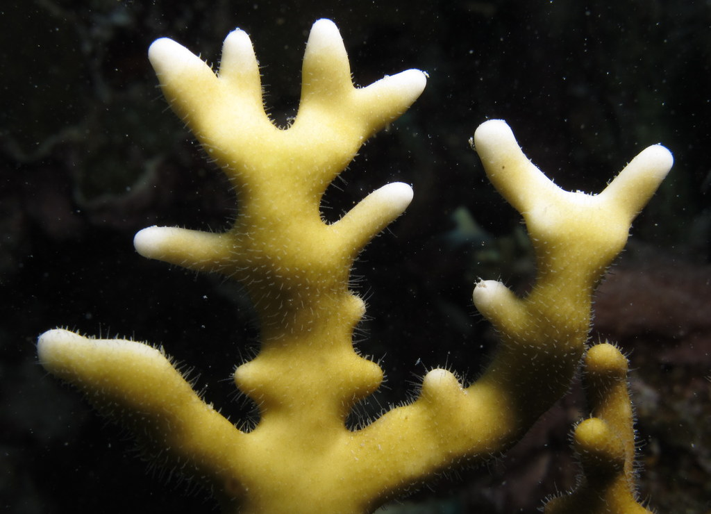 Fire coral (hydrozoan) skeleton with polyps extended at Marsa Shouna, Red Sea, Egypt #SCUBA